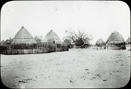 Shrine of Nyikang, the founder of the Shilluk nation, at Akurwa (South Sudan) in 1910